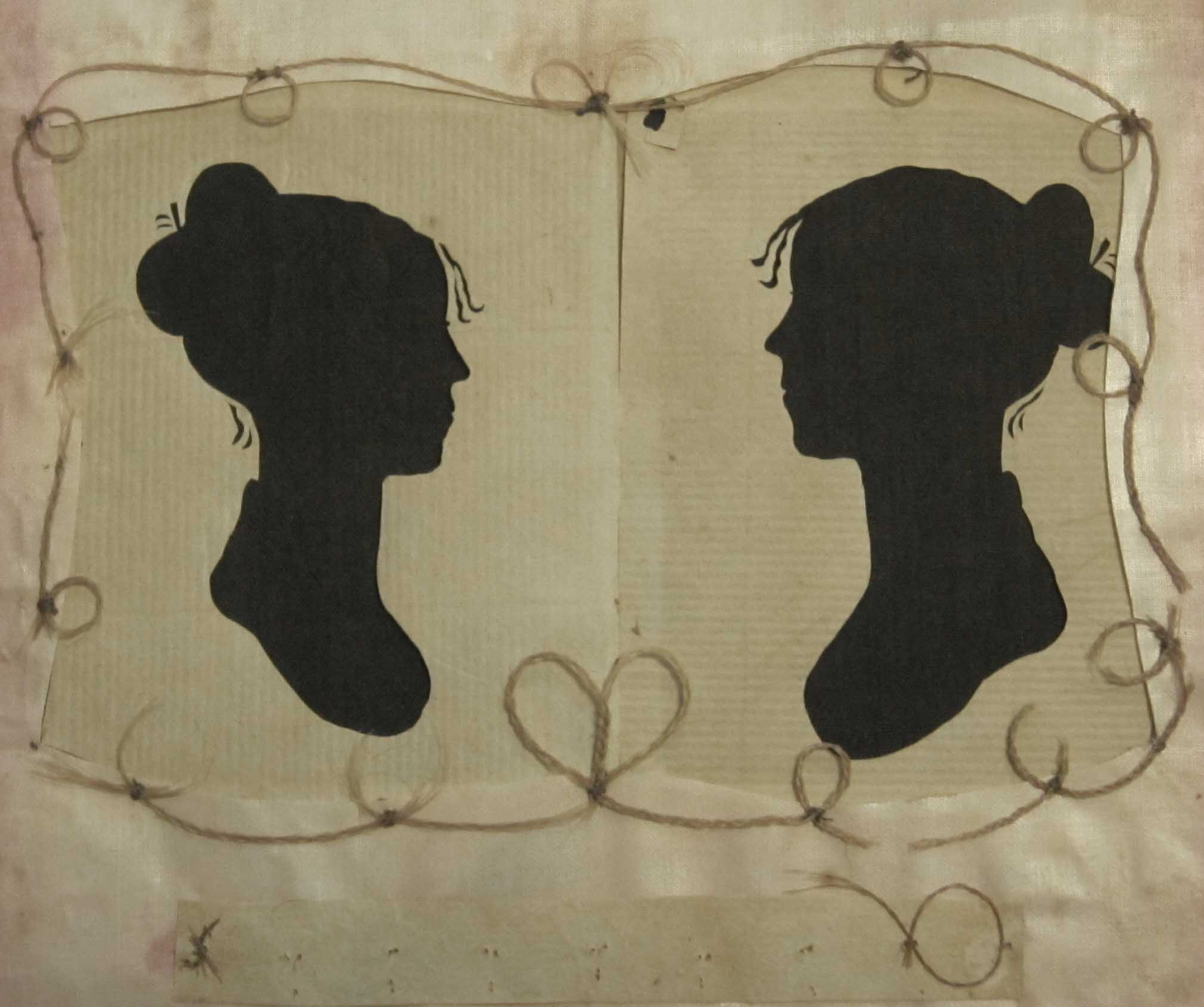 Sheldon Museum. Charity Bryant and Sylvia Drake, Middlebury Vermont